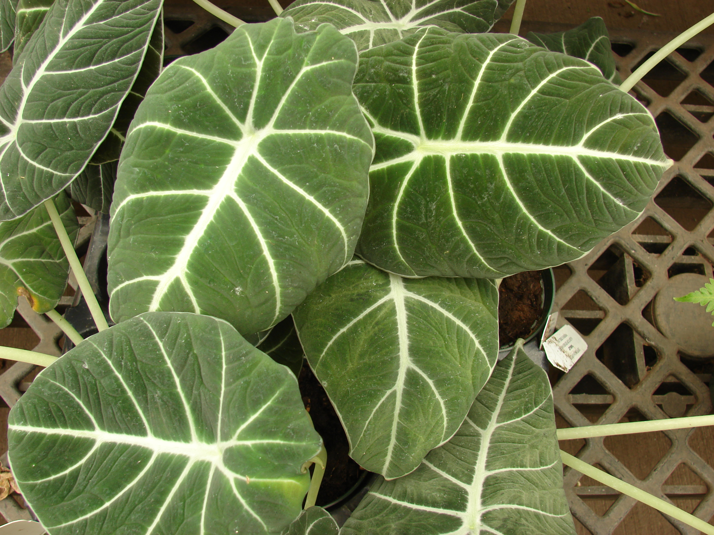 Alocasia reginula (leaves). Location: Maui, Walmart Kahului